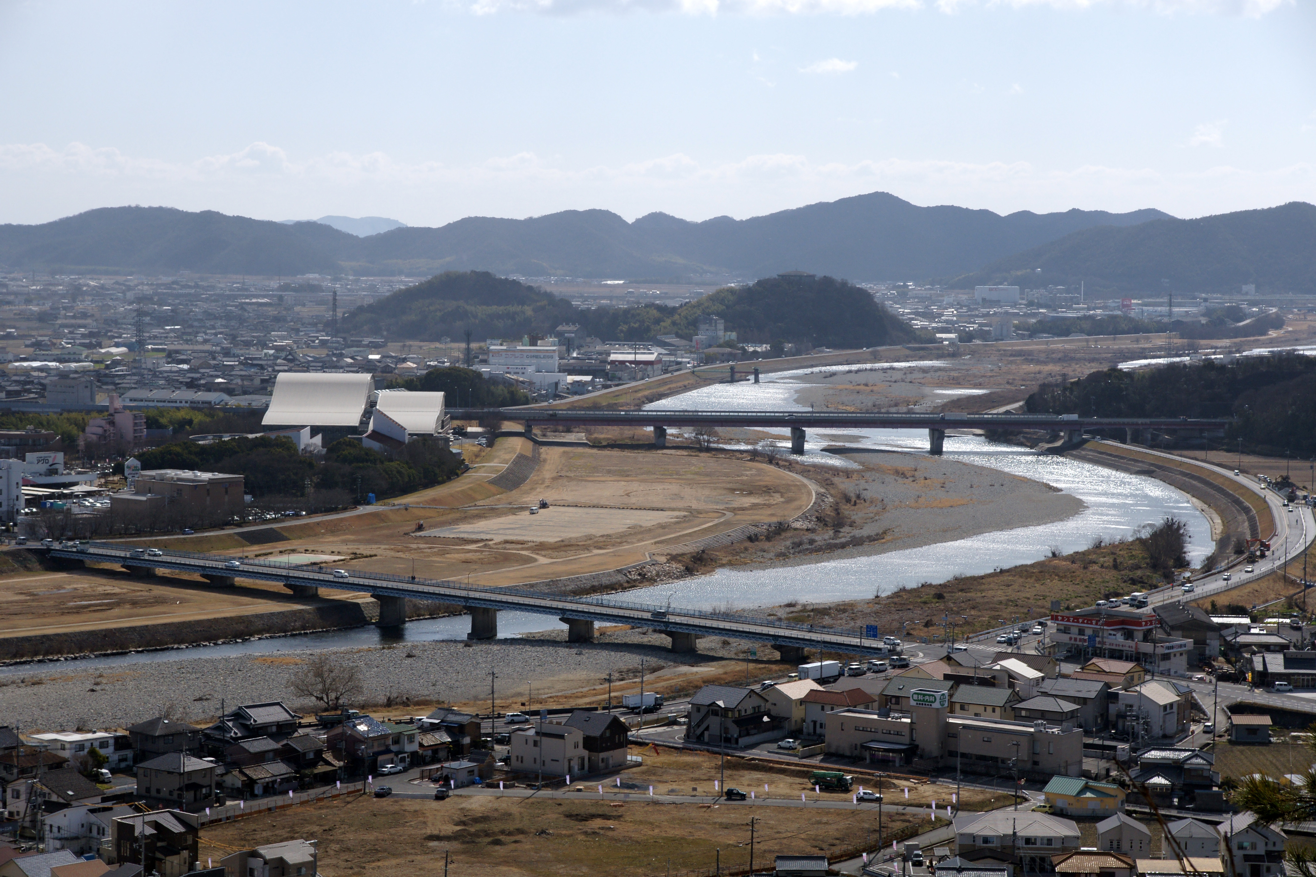 Ibo River view form Shirasagi-yama Park in Tatsuno, Hyogo prefecture, Japan